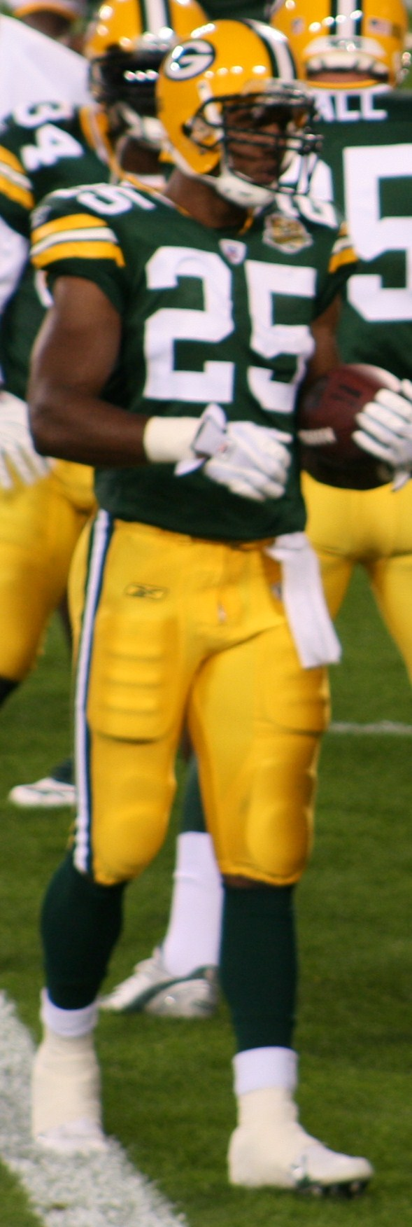 Image:Bears v Packers 01.jpg cropped by User:AllynJ to show just Ryan Grant